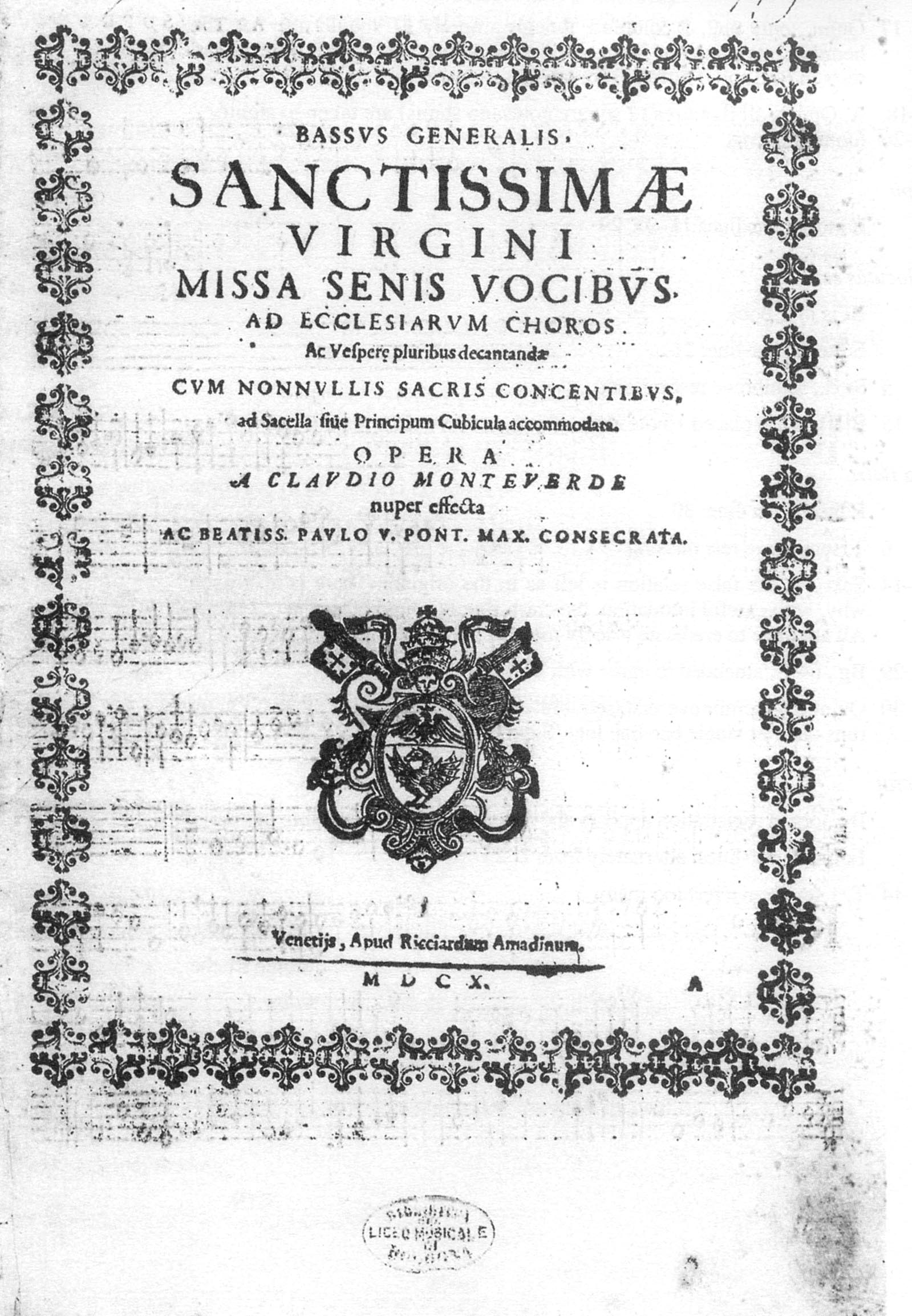 Frontpage Bassus Generalis Claudio Monteverdi (1610)